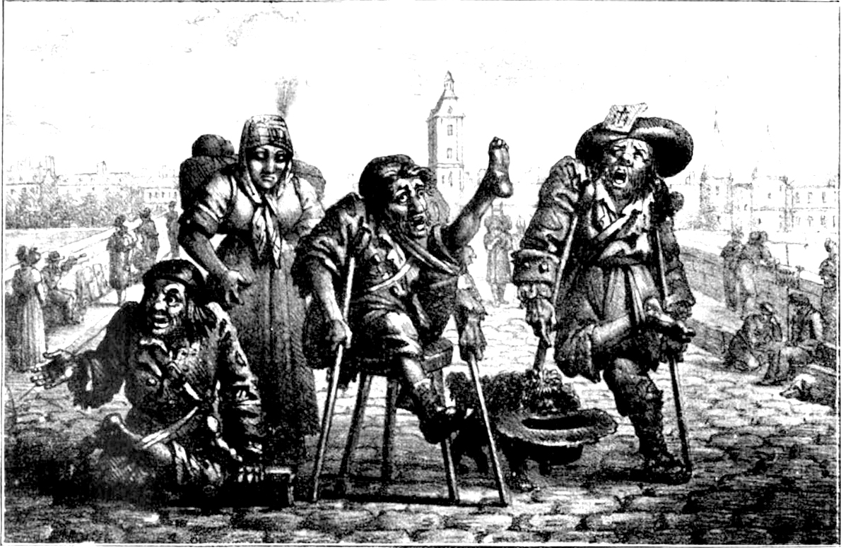 Four Beggars at the Pont-au-Change after Marlet (1847-1914)